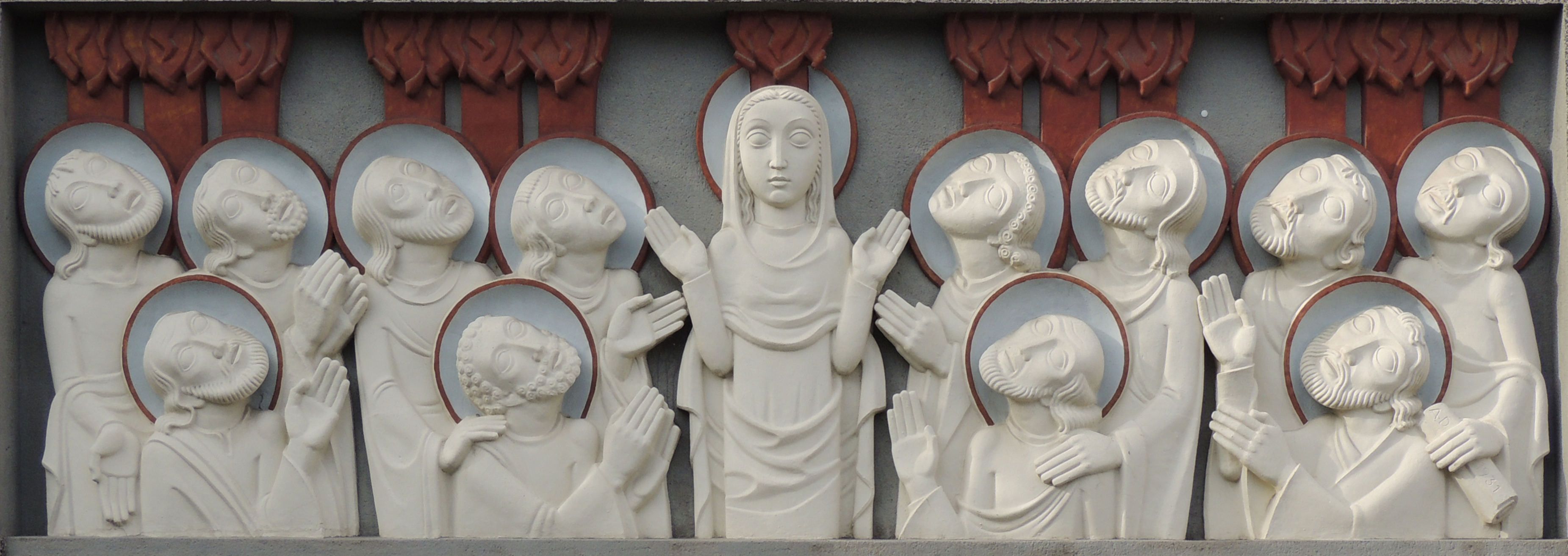 Relief with the outpouring of the Holy Spirit by Arnold Hensler at the south entrance of the Heilig-Geist-Kirche in Frankfurt am Main-Riederwald